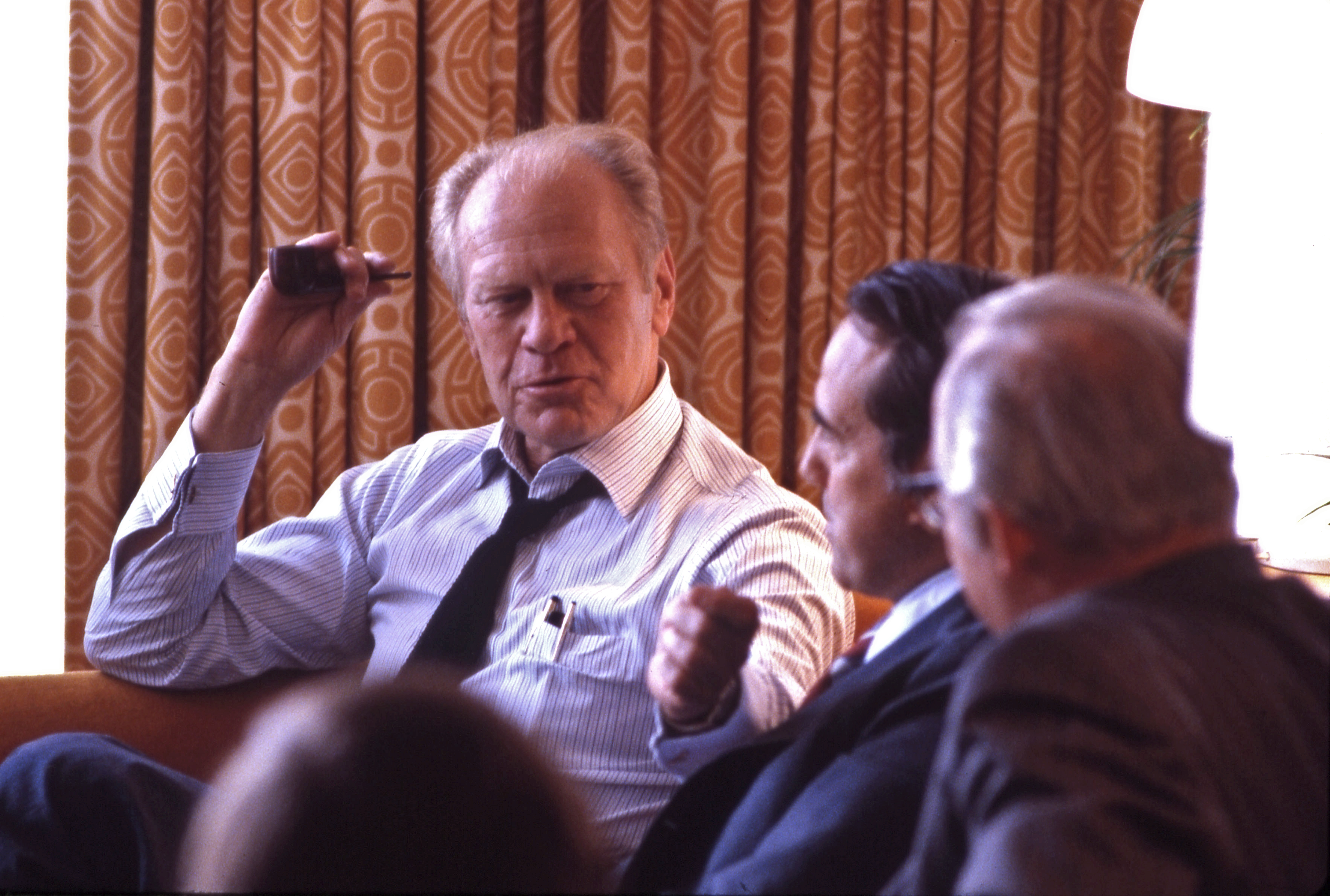 President Gerald Ford makes a decision not to run as Ronald Reagan’s vice presidential running mate while meeting with congressional leaders Senators Robert Dole, Howard Baker and Bill Brock.